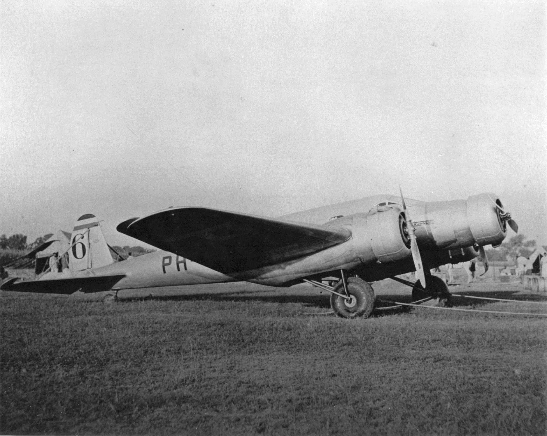 Pander S-4 Postjager at Allahabad during the MacRobertson Air Race. If you look careful you can see the propeller blades on the left and middle engine are bent. This damage was sustained when the safety pin of the left landing gear failed and the gear collapsed on landing[1].